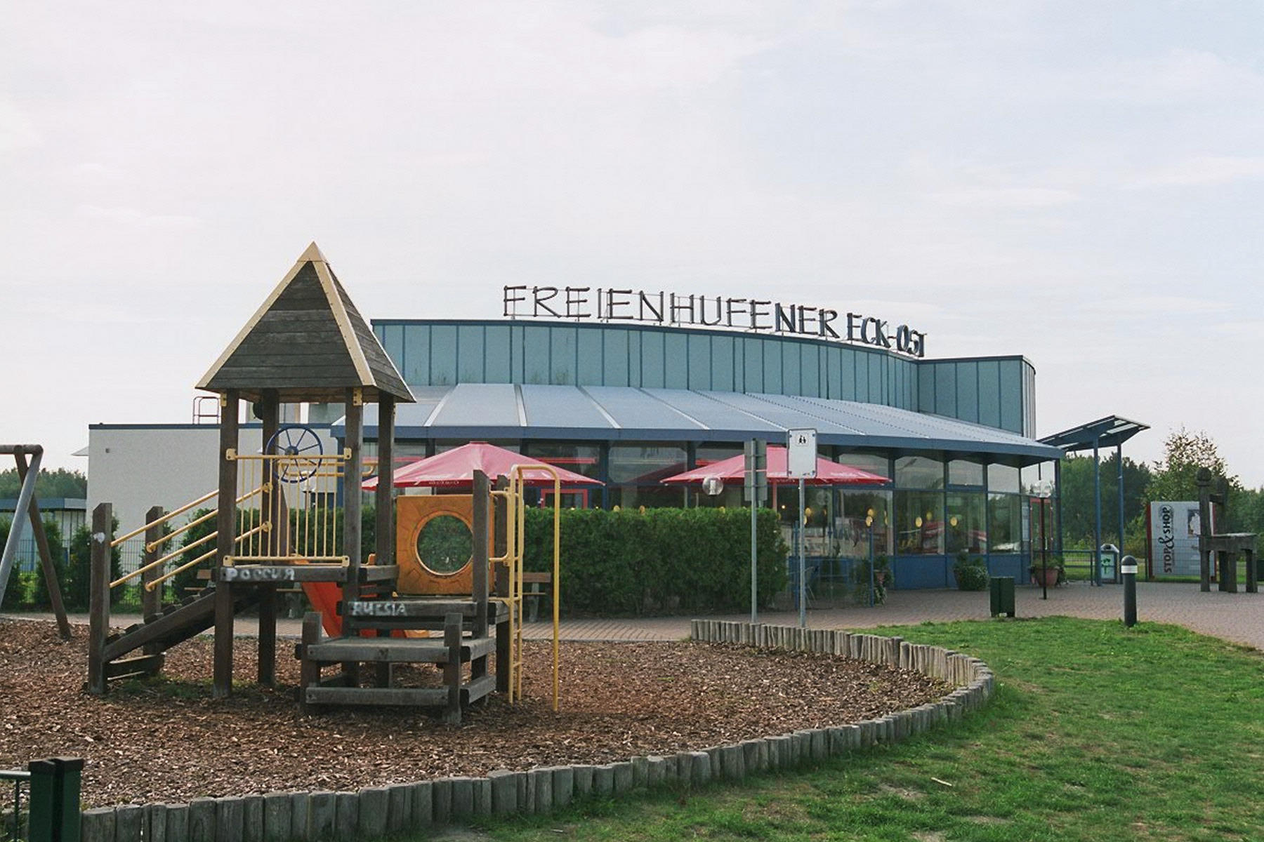 The rest area Freienhufener Eck Ost in Freienhufen, Brandenburg on the Autobahn 13 from Dresden to Berlin.